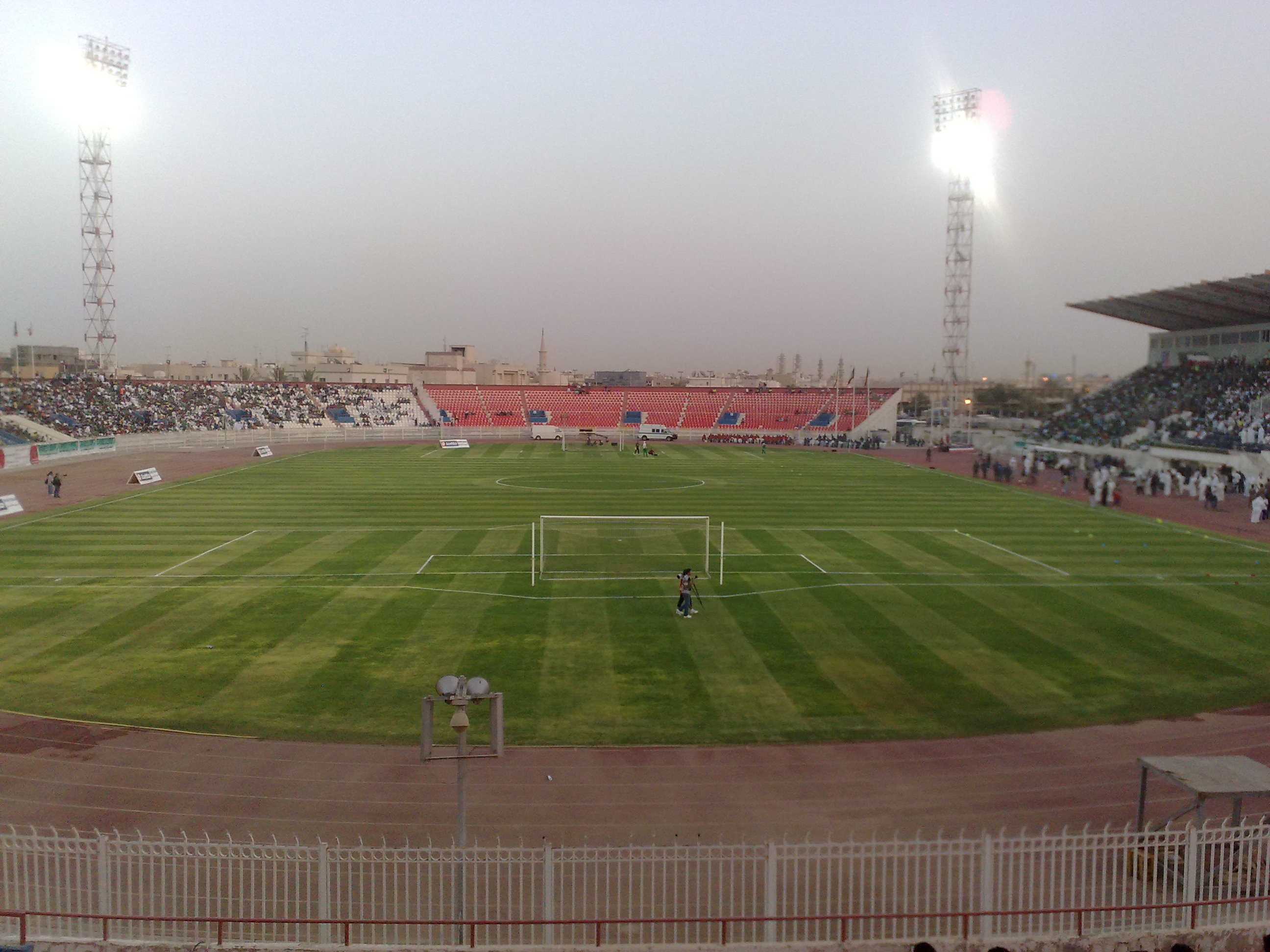 Al Kuwait Sports Club Stadium Before the Kuwait Emir Cup 2009 Final against Al Arabi, which they won